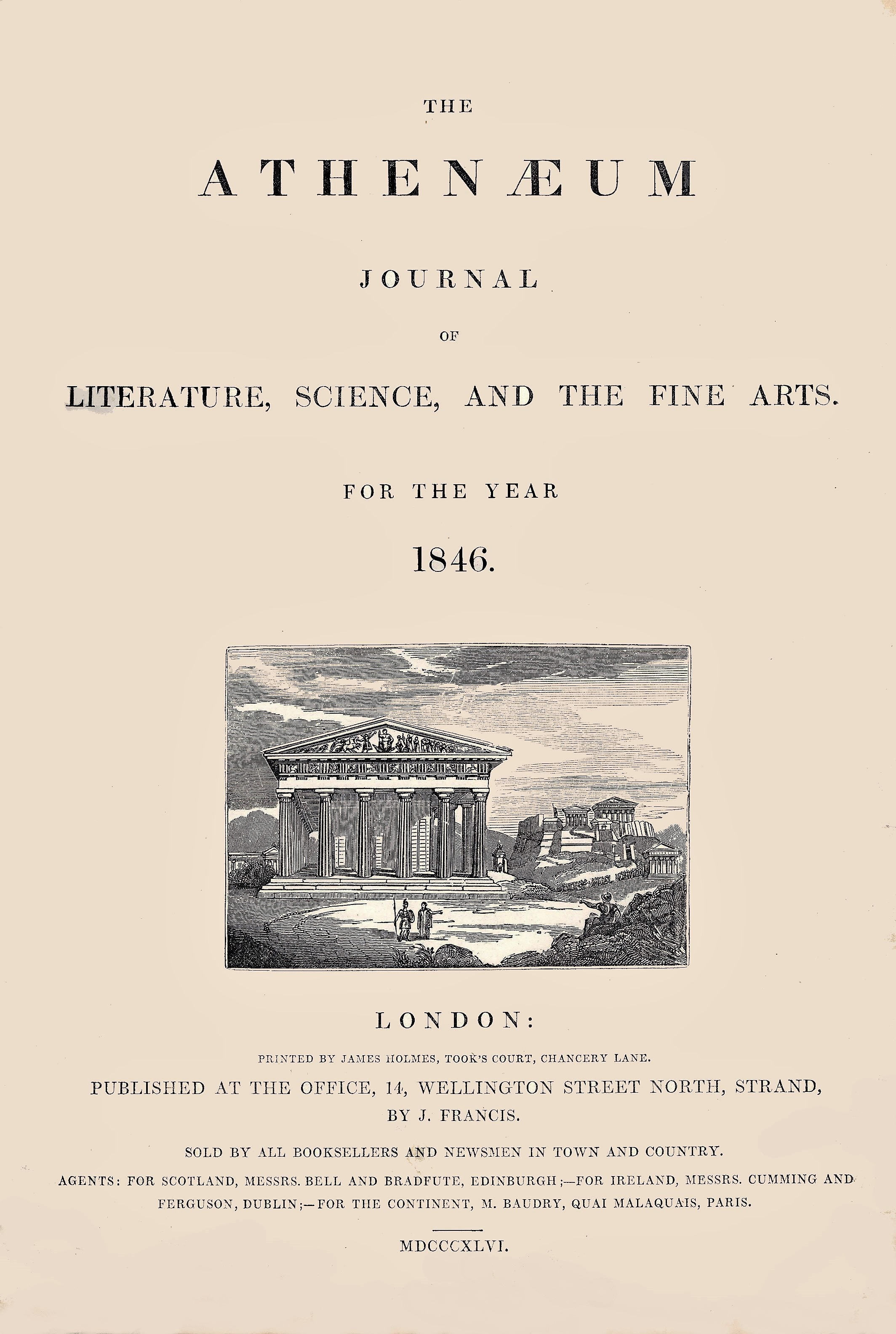 The cover of the 1846 issue of The Athenaeum